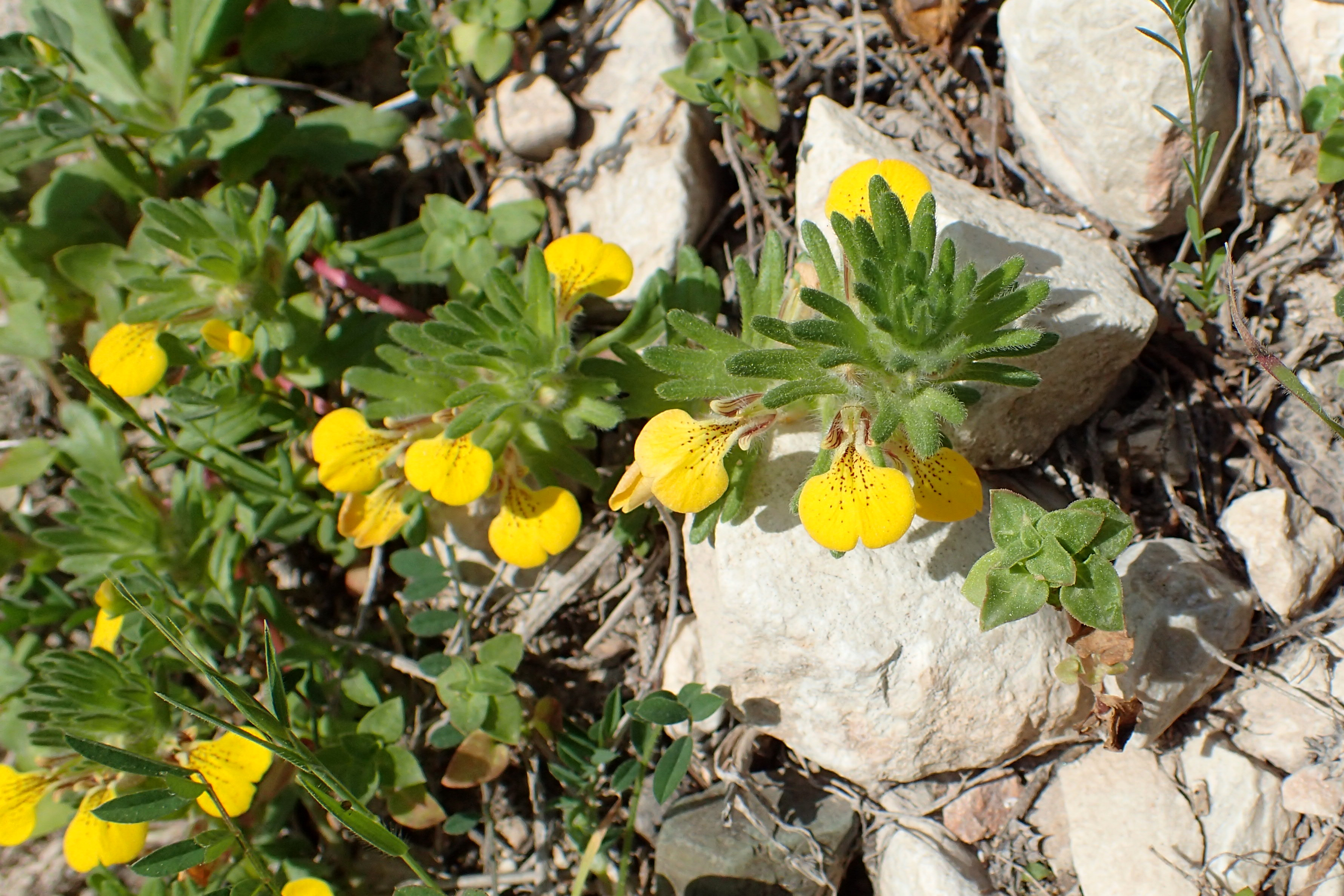 Ajuga chamaepitys subsp. palaestina in Avakas Gorge, Cyprus